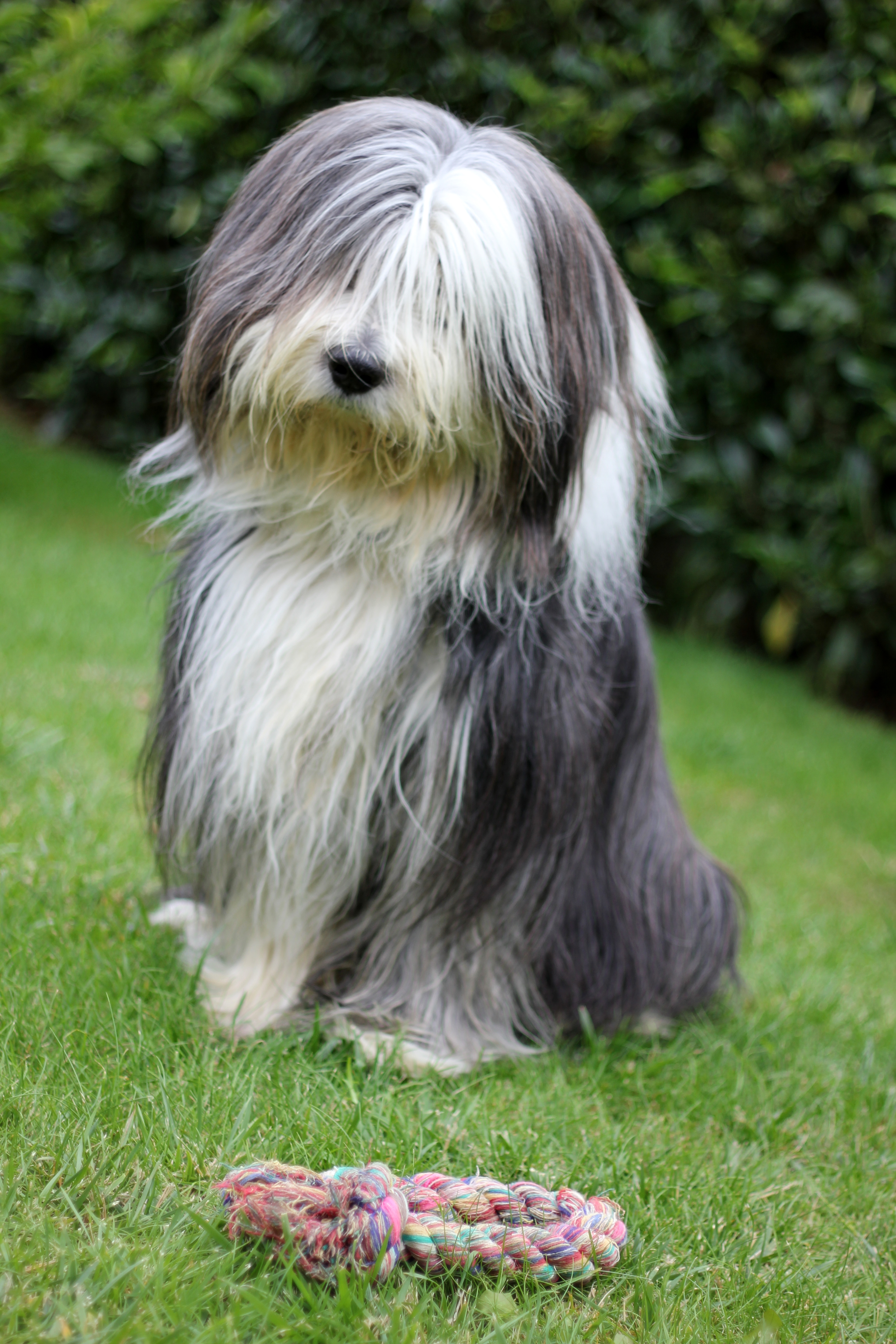 Bearded collie after playing with a rope